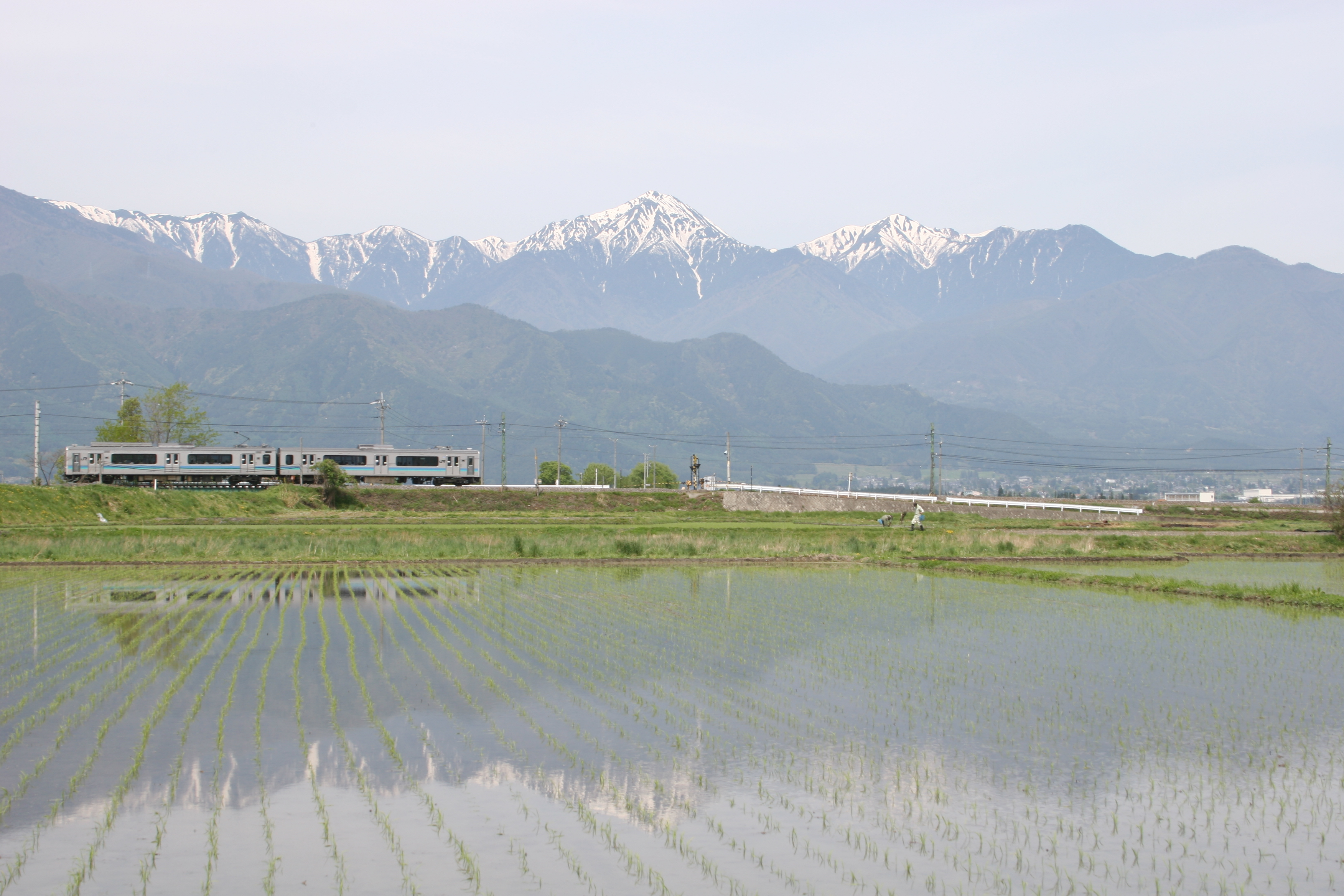 A JR East E127-100 series two-car EMU on the Oito Line in Azumino, Nagano Prefecture, Japan. Mount Jonen in the back.